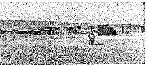 The shacks of Dimona at the time of establishment of the city